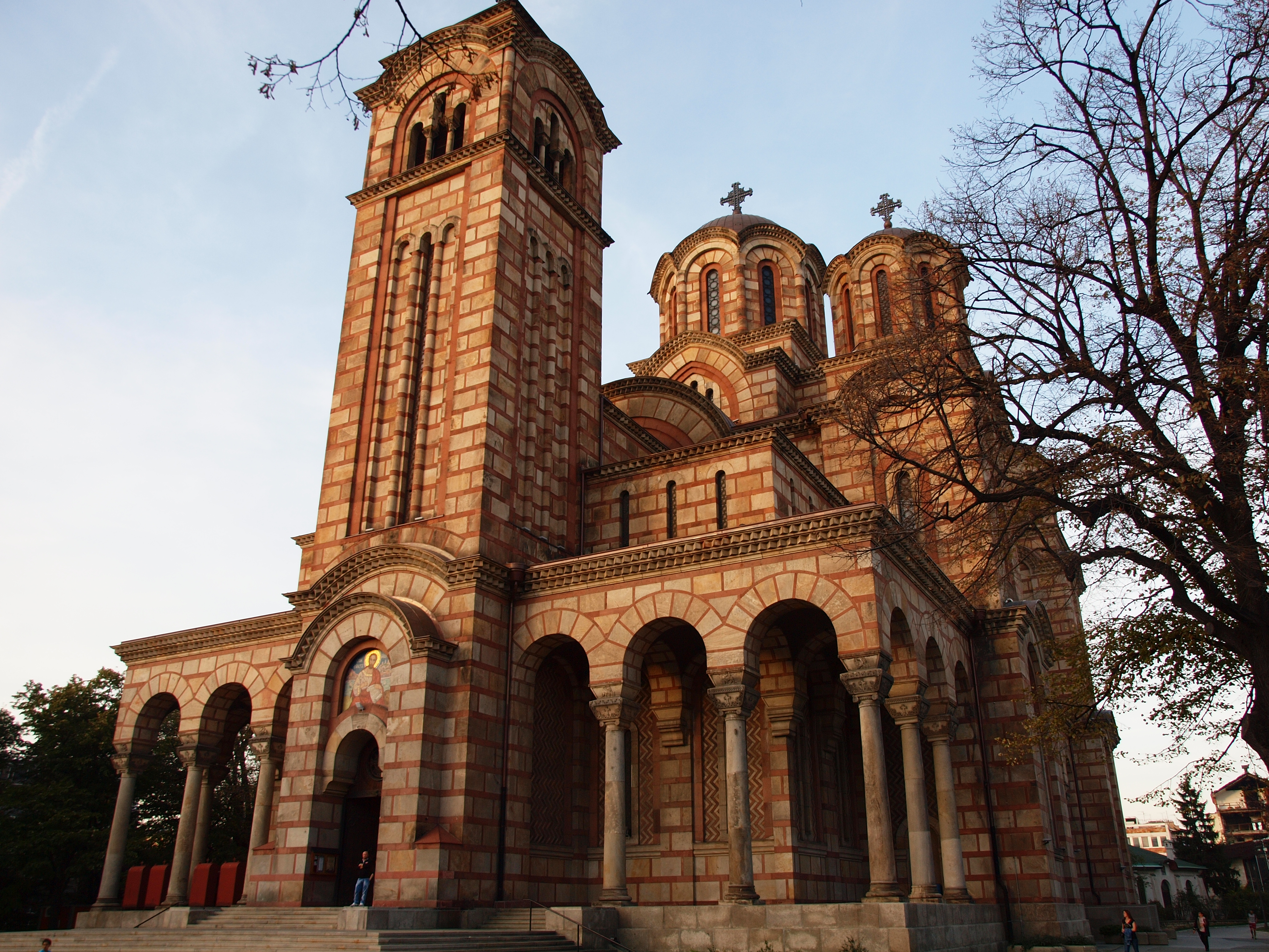 Saint Mark church Belgrade Tasmajdan